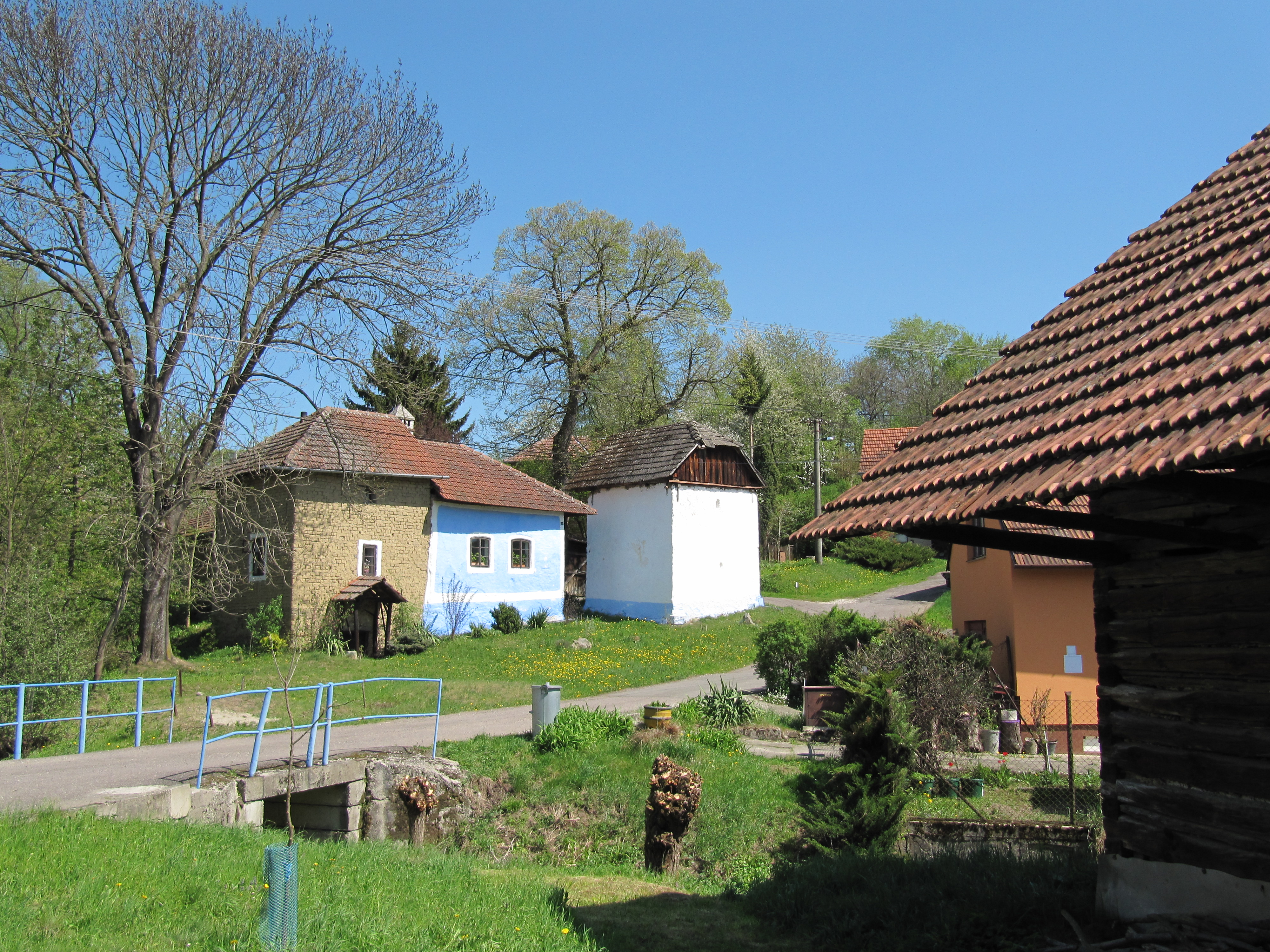 Kaňovice in Zlín District, Czech Republic. Listed house No. 19 with a chamber.